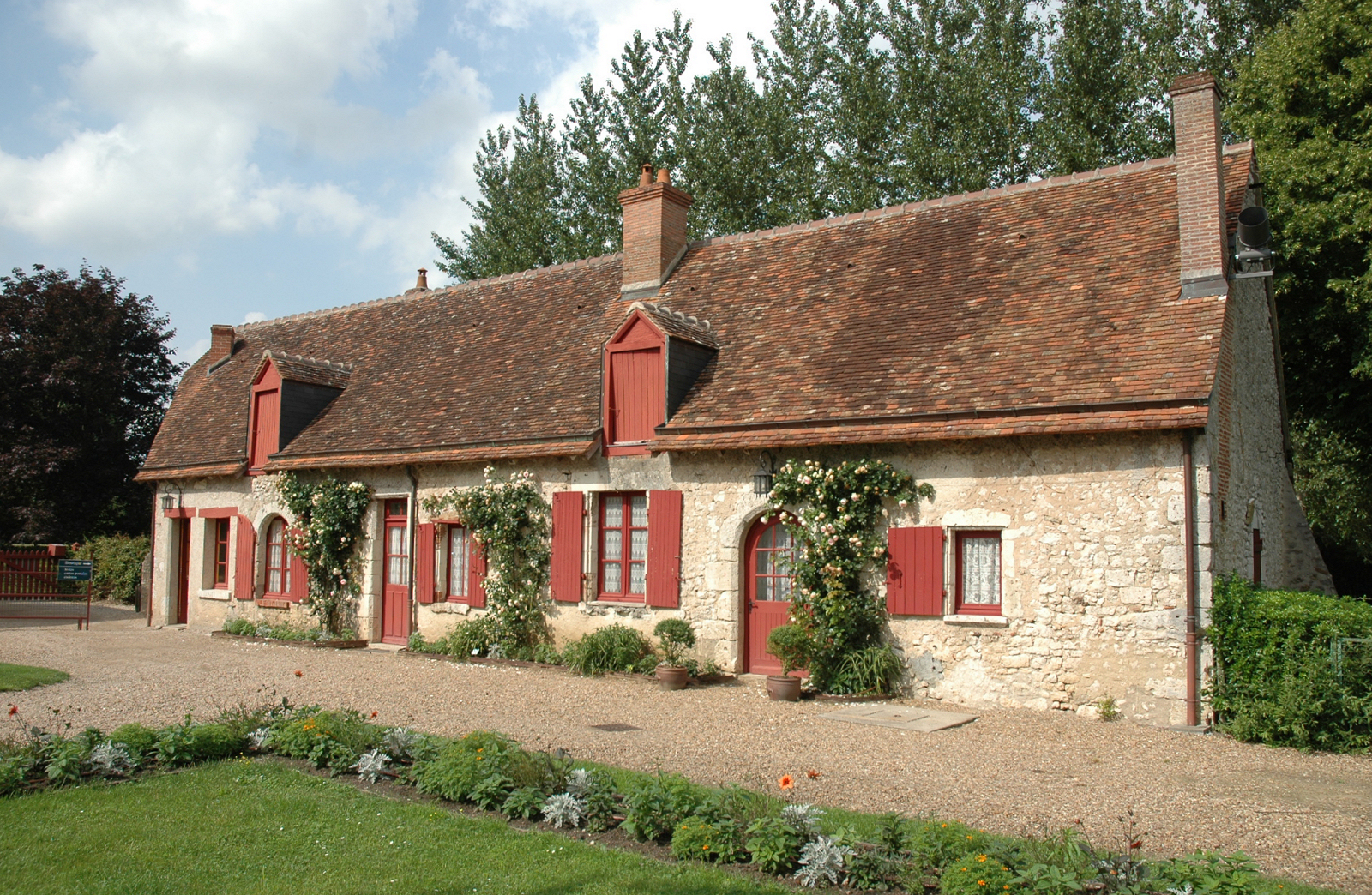 Château de Fougères-sur-Bièvre, building in the outer bailey